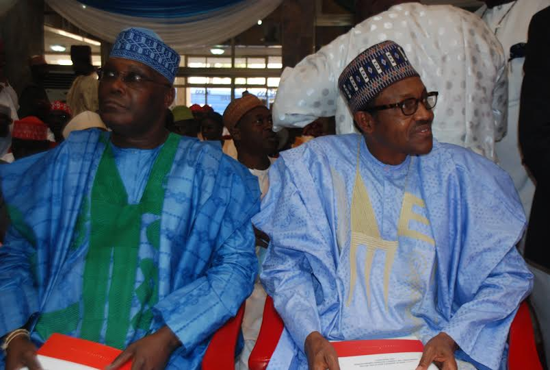 Former Vice-President Atiku Abubakar and Former Head-of-State General Muhammadu Buhari (Rtd) at the First Progressive Governance Lecture Series